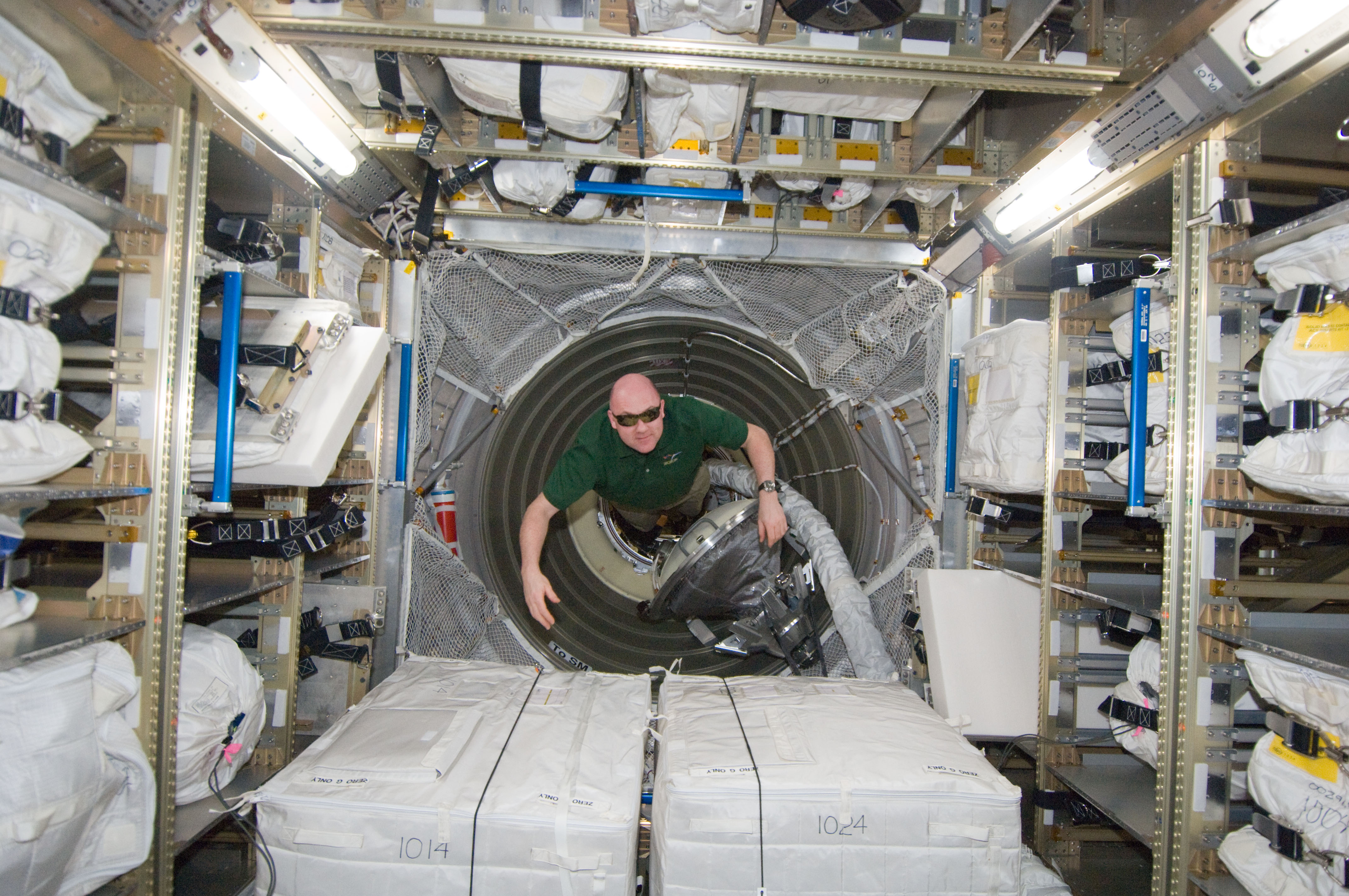 European Space Agency astronaut Andre Kuipers, Expedition 30 flight engineer, floats into the Automated Transfer Vehicle (ATV-3) currently docked with the International Space Station.